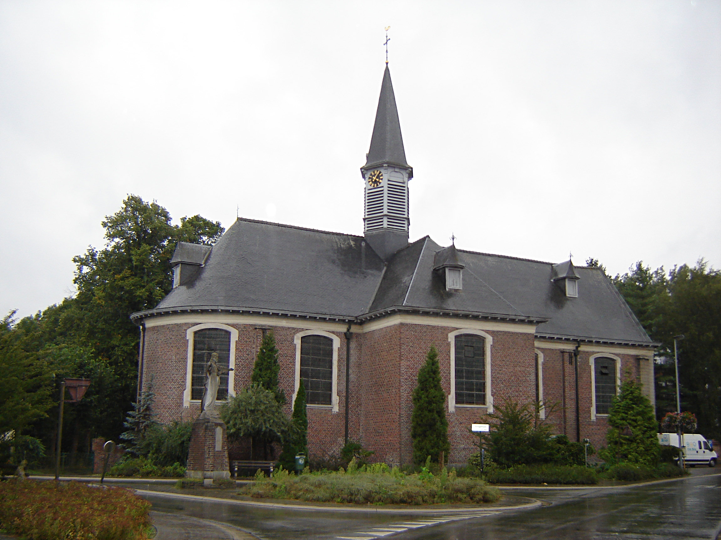 Church of Saint Anne in Ten Ede. Ten Ede, Wetteren, East Flanders, Belgium